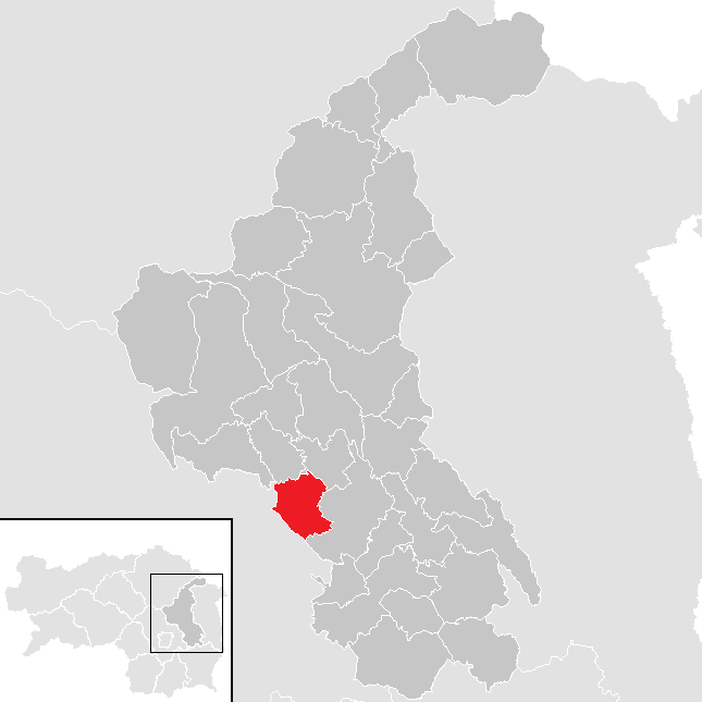 district Weiz